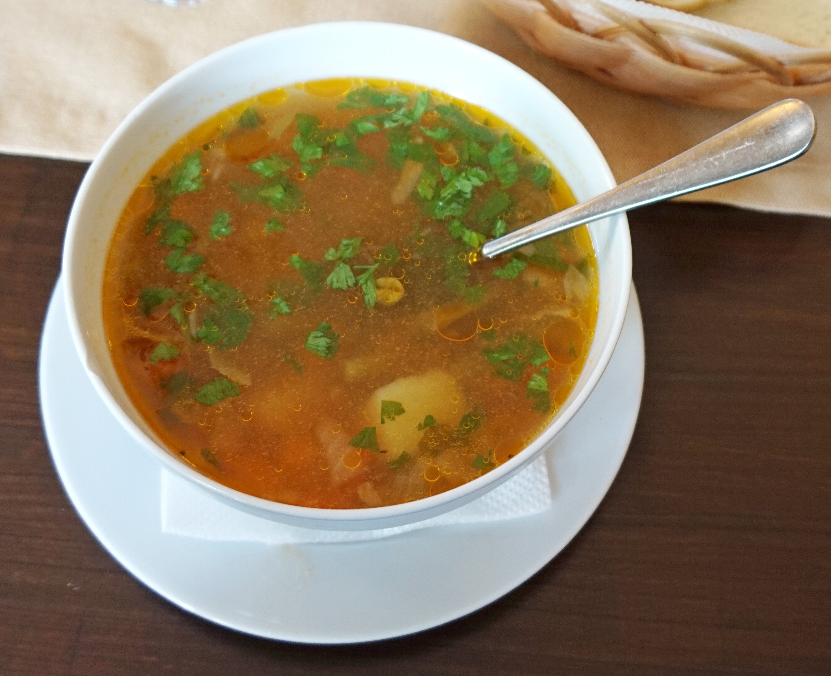 Vegetable soup in a restaurant, Ramnicu Valcea. This photograph was taken with a Sony Alpha a5000.